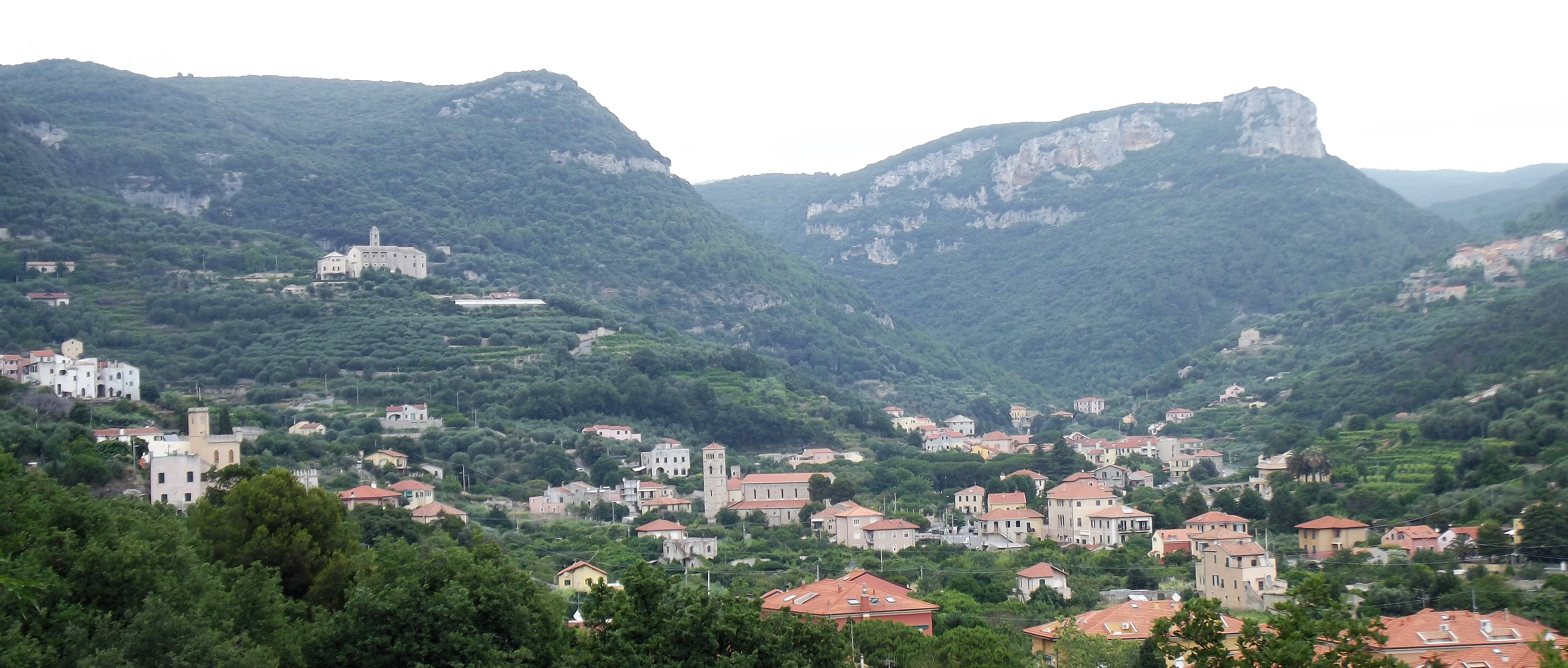 Calvisio (Finele Ligure, SV, Italy): panorama